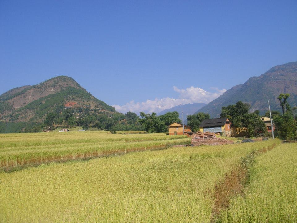 A Village in Myagdi district in Nepal.(Picture taken by Shishir Shran Shrestha.